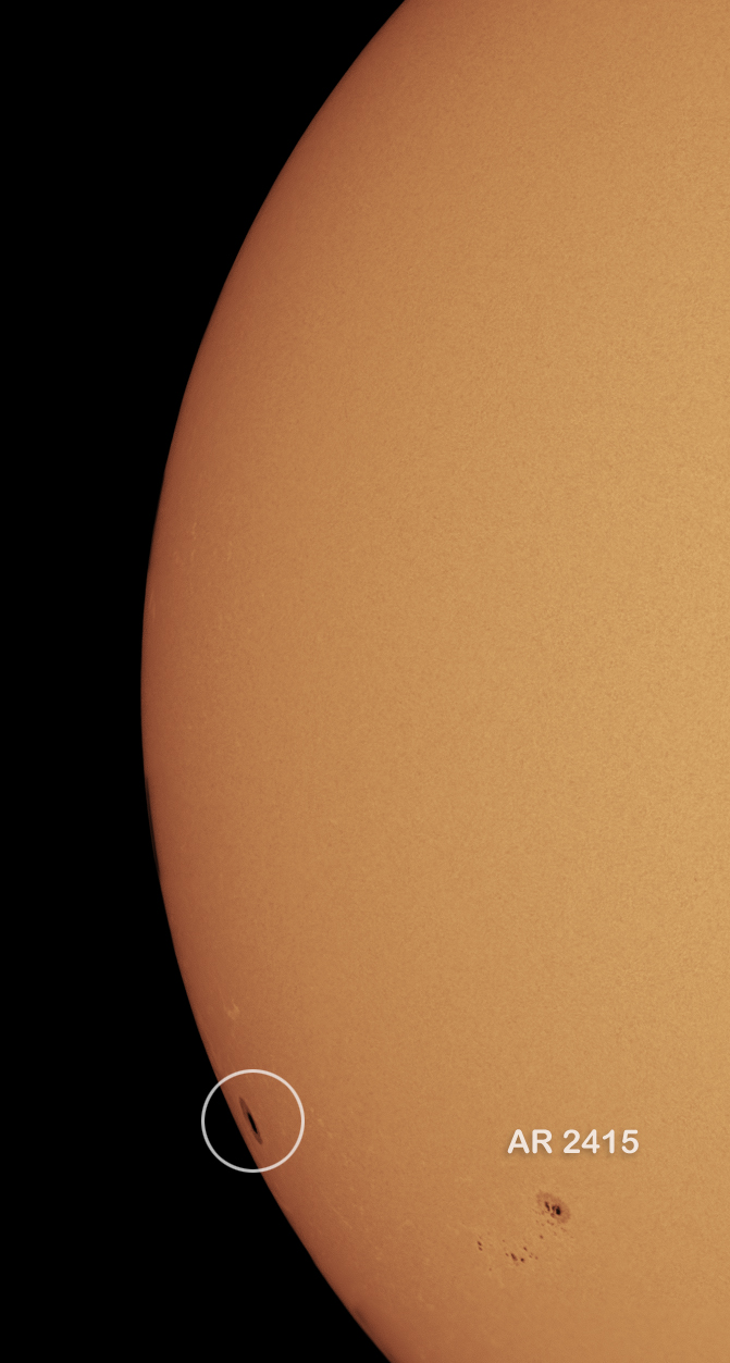 A previously very active sunspot has reappeared around the Eastern limb - maybe it is still fizzy! The sunspot shows the Wilson Effect - Its thought that the dark umbra is deeper in the photosphere than the penumbra so sunspots can look asymetric near the limb. Equinox 120ED scope with Baader Herschel wedge and Skyris 274m CCD camera. Ioptron ZEQ25GT mount.